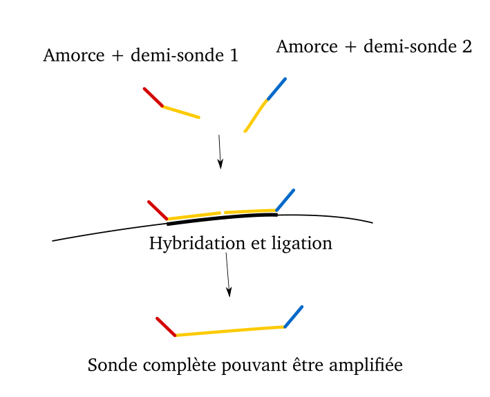 Principle of the mlpa analysis.